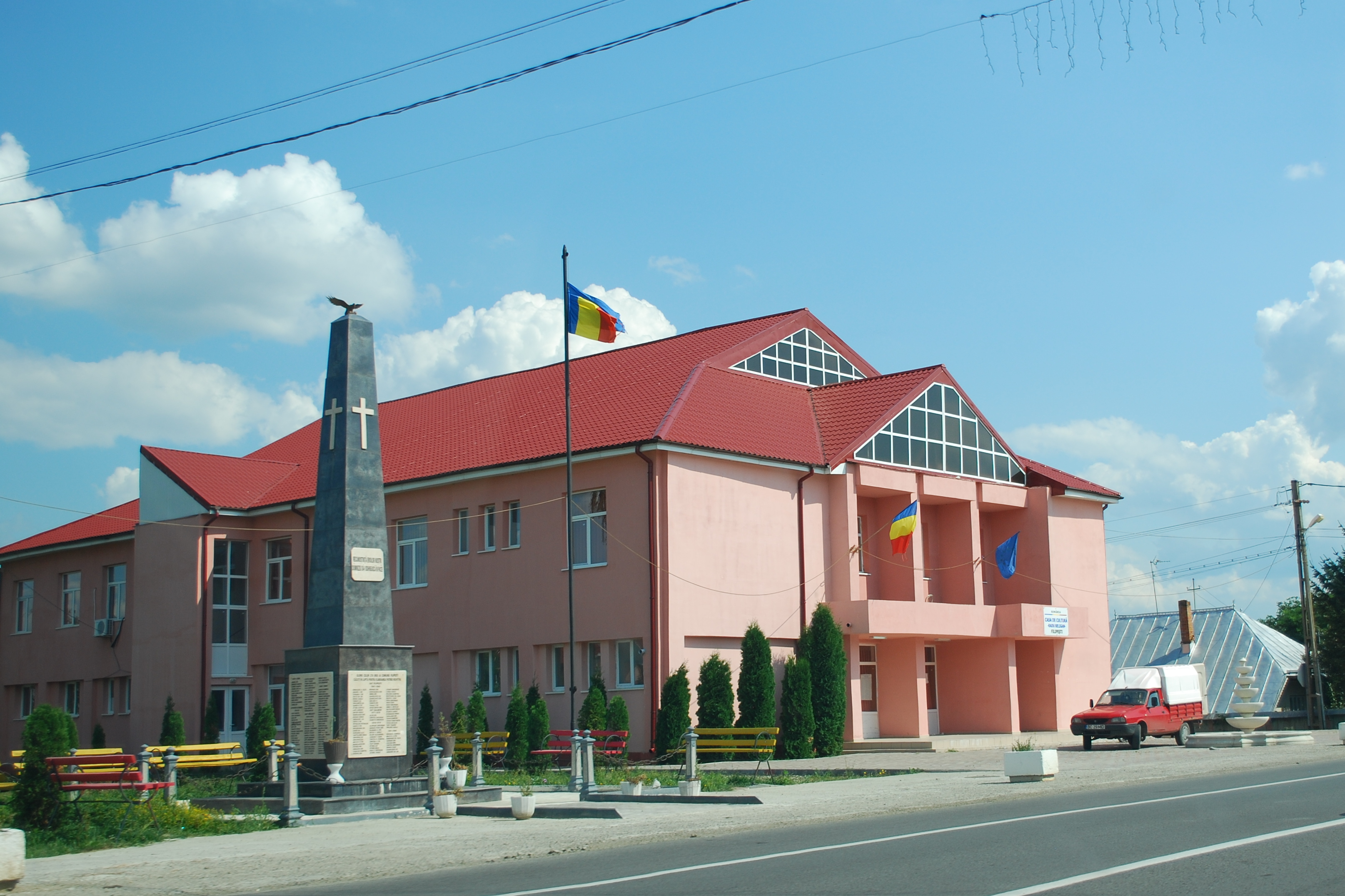 "Radu Beligan" cultural center in Filipeşti, Bacău County, Romania